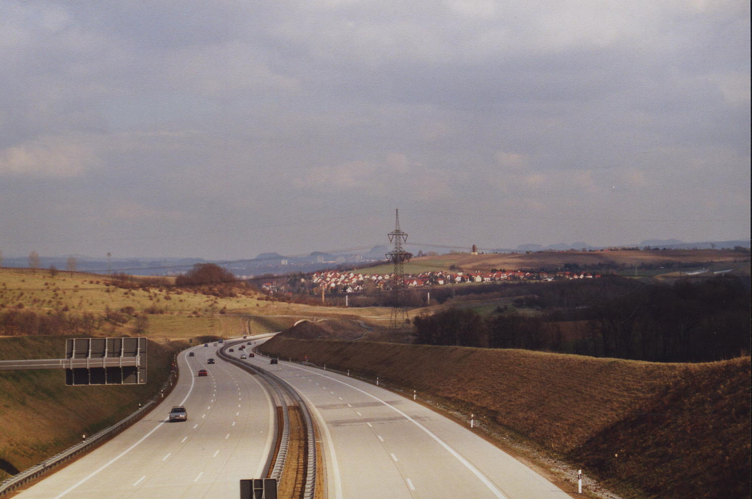 Bundesautobahn 17: View on the finished road near Bosewitz.